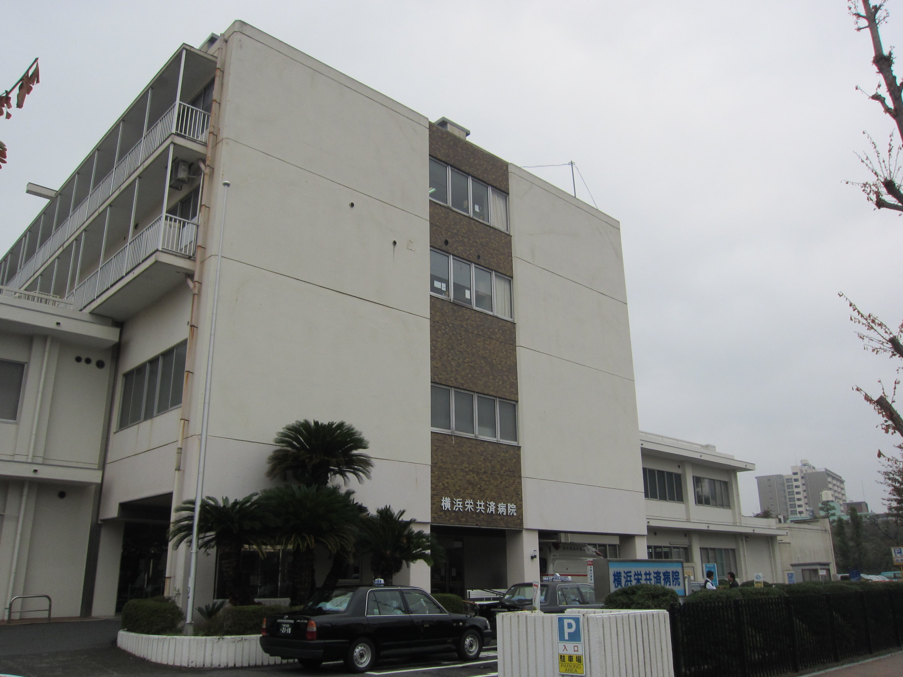 Yokohama Sakae Kyosai Hospital